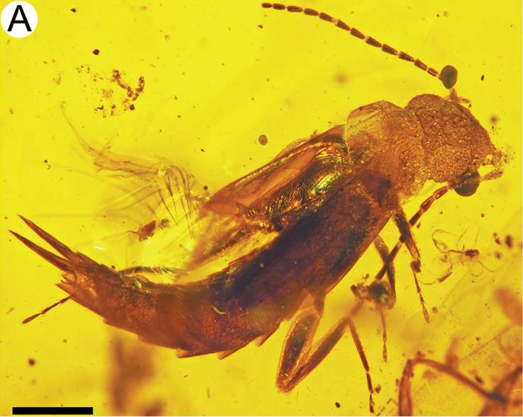 Astreptolabis laevis, paratype, CNU-DER-MA2018002 A photo B line drawing C photo of legs D photo of cerci. Scale bars: 0.5 mm (A, B), 0.2 mm (C), 0.1 mm (D).